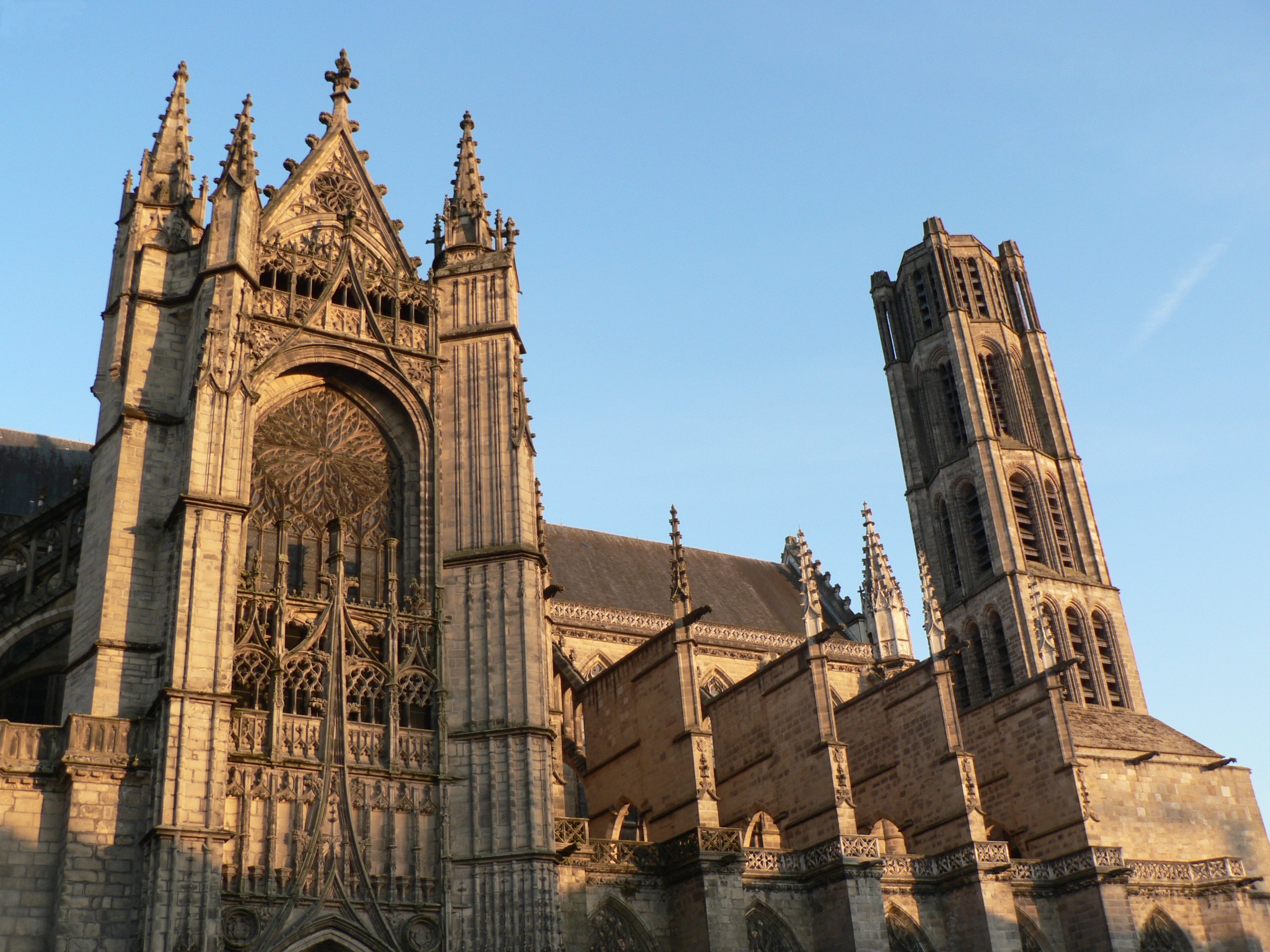 Saint Étienne's Cathedral, Limoges, France